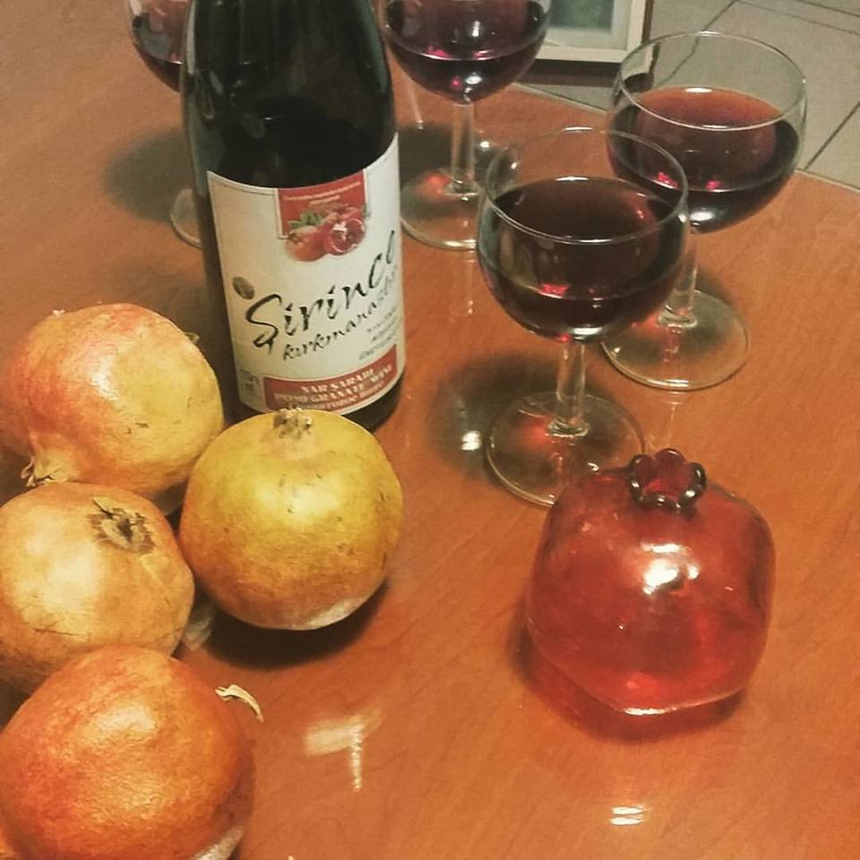 Nardugan Celebration (21st December)